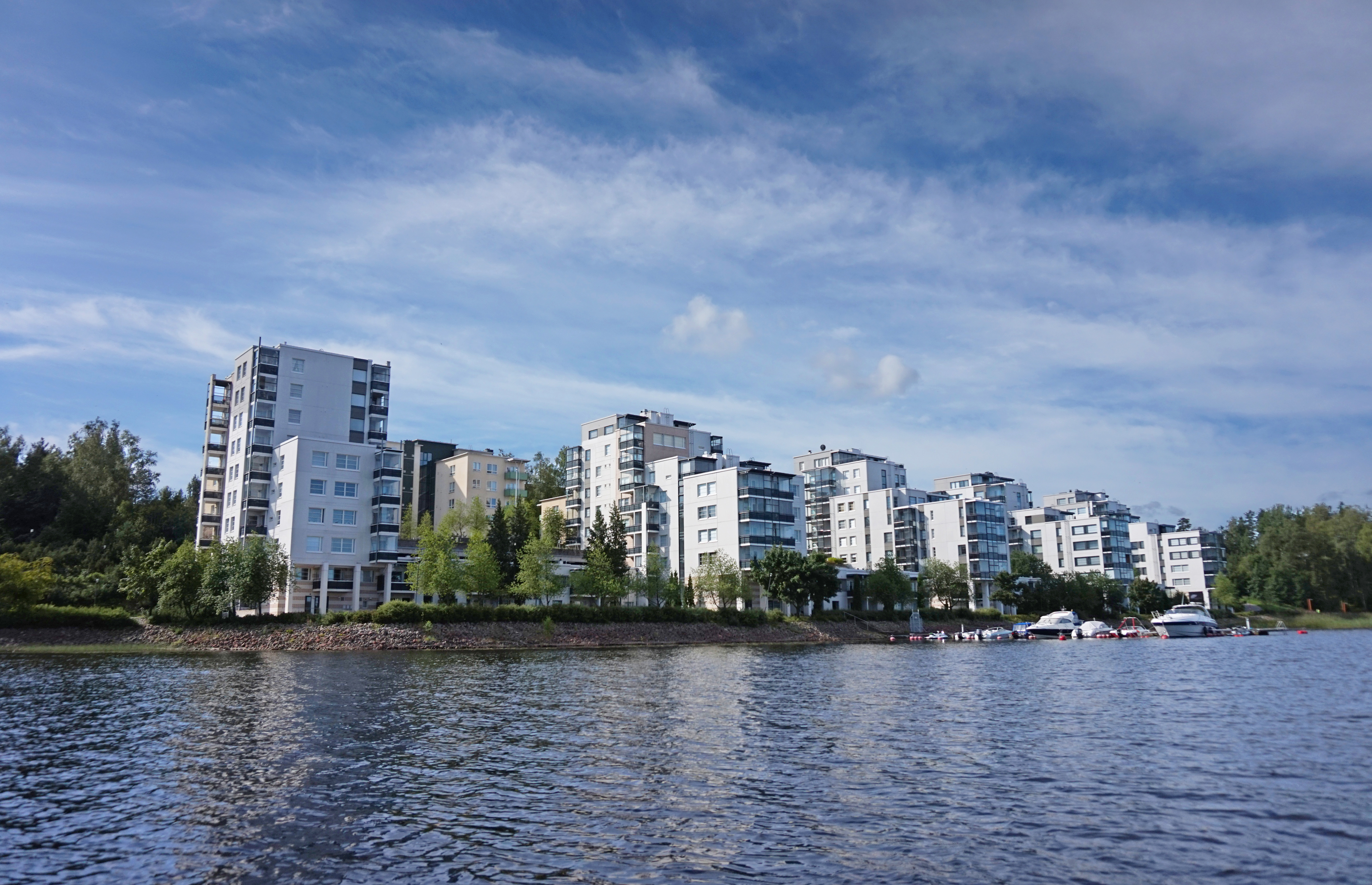 Ainolanranta in Jyväskylä. View from the lake Jyväsjärvi.This photograph was taken with a Sony ILCE-5000